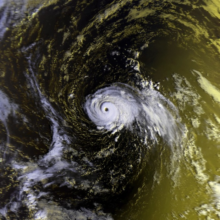 Hurricane Ivan from NOAA-6. Inventory ID: NSS.GHRR.NA.D80283.S1022.E1214.B0667879